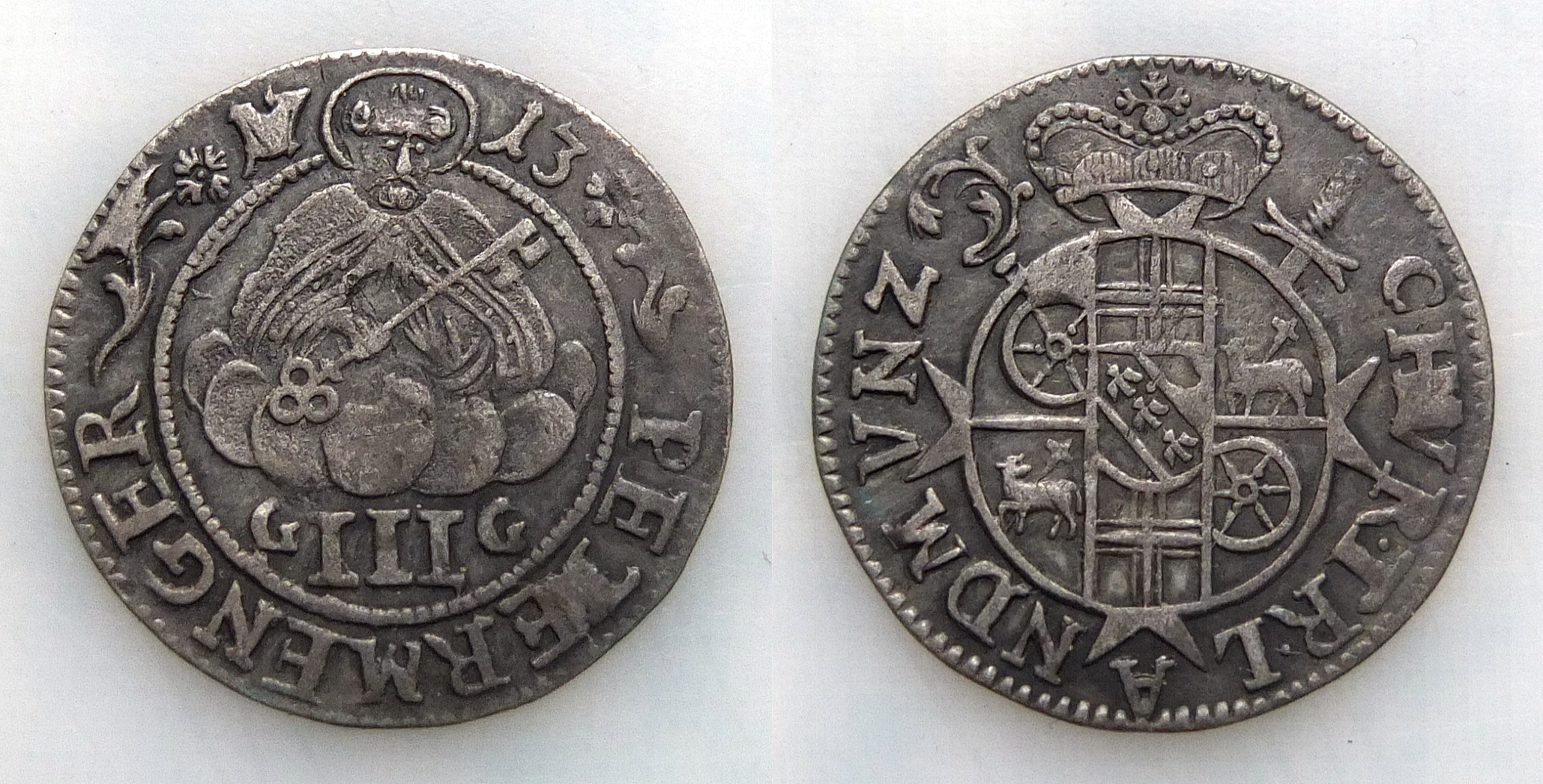 Triple Albus (III Petermenger), Trier 1713, AV: St. Peter with key of the town, RV: Coat of arms of Charles Joseph of Lorraine, Archbishop-Elector of Trier.